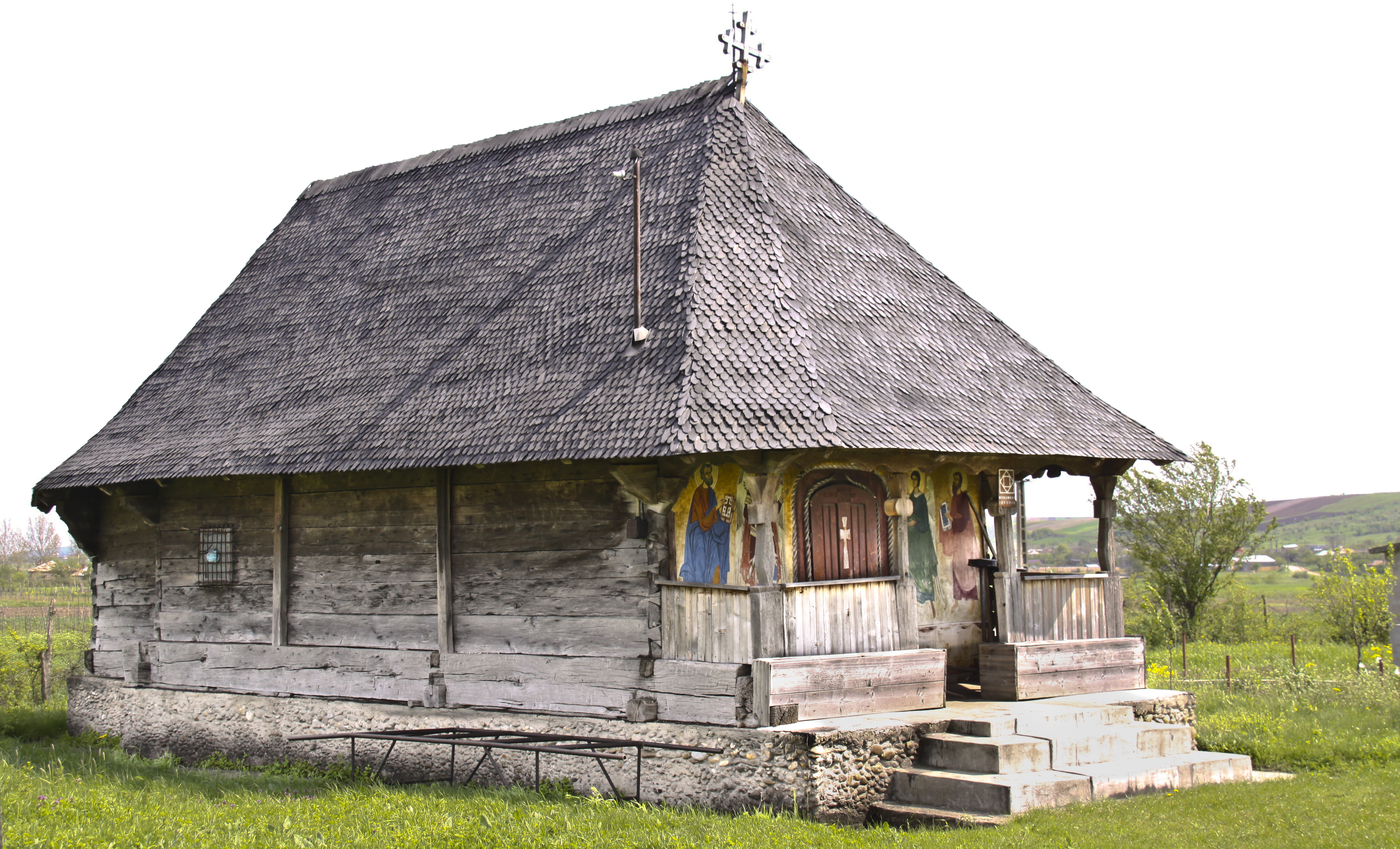 Priseaca, Olt, Romania: the wooden church tranferred from Marineşti, Gorj county.